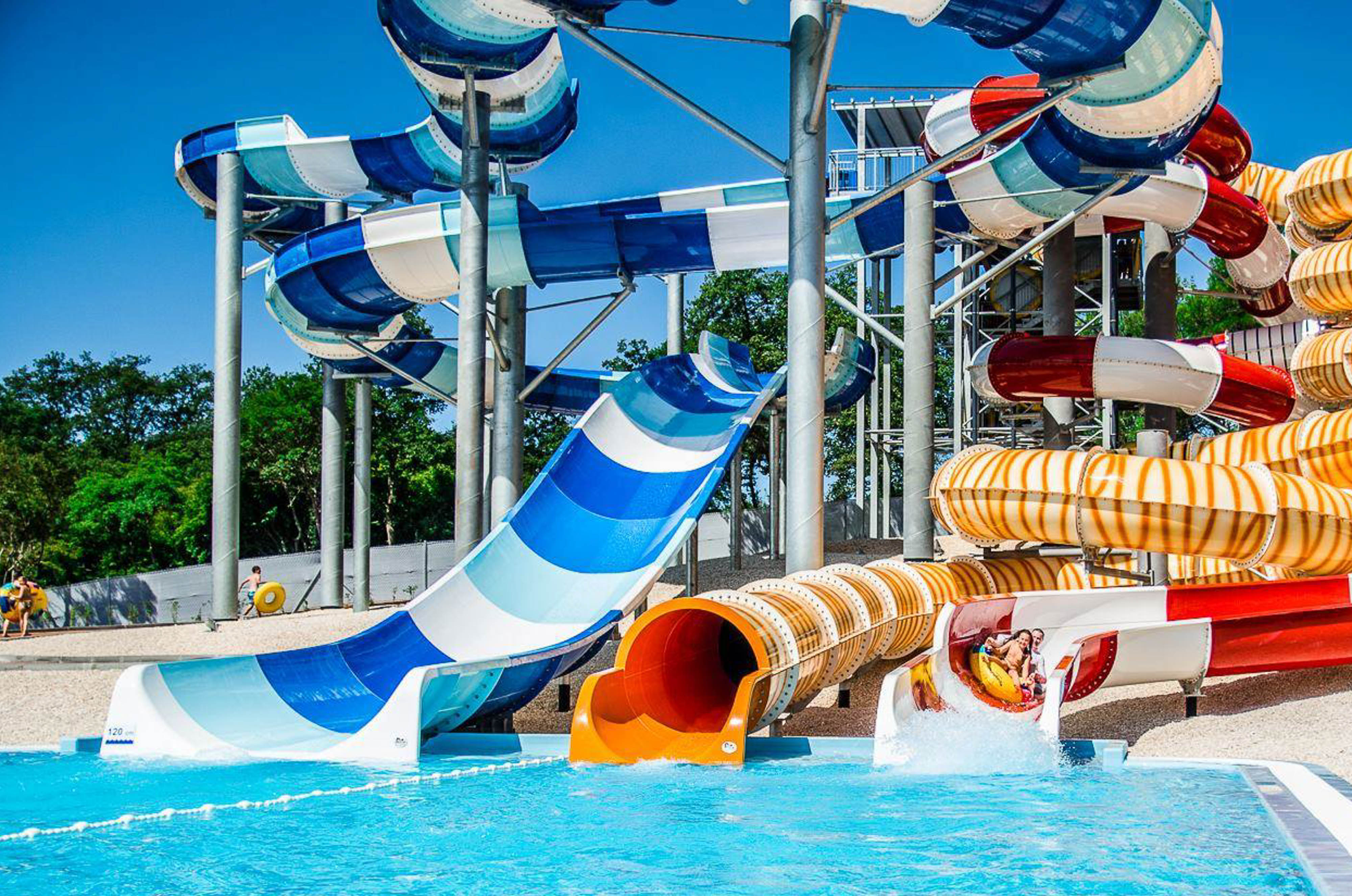 Aquapark Istralandia - family rafting, fantasy hole and Sky river